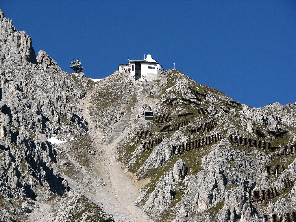 Section 2 of the Nordkettenbahn